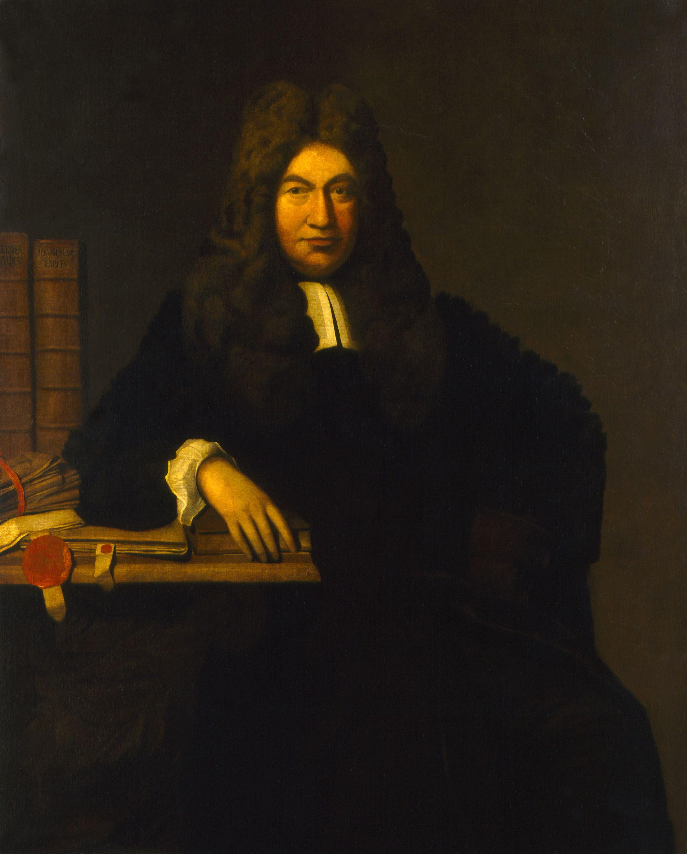 Portrait of Sylvester Pety († 1719), British lawyer